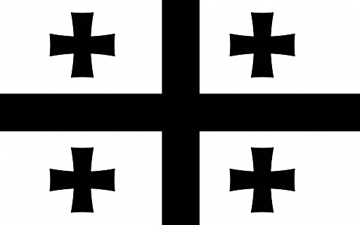 Baluni flag